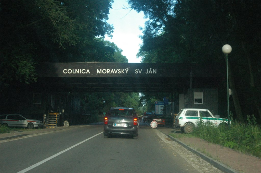 Former checkpoint Hohenau an der March-Moravský Svätý Ján (closed Dec 21, 2007, demolished Dec 2009)